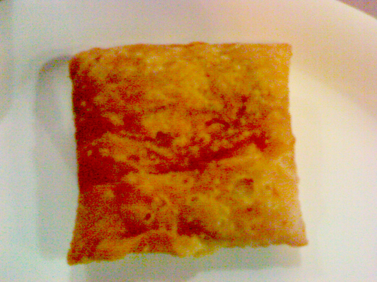 A picture of Lukhmi (a type of Samosa).